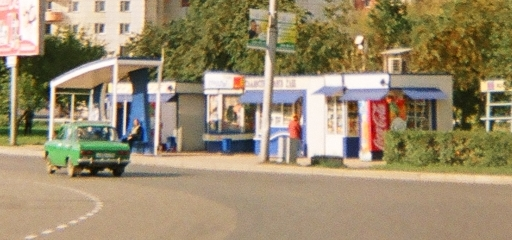 Bus stop on the Khokharyakov Street in Perm (a fragment of Image:A building in Dzerzhinsky district of Perm.jpg)